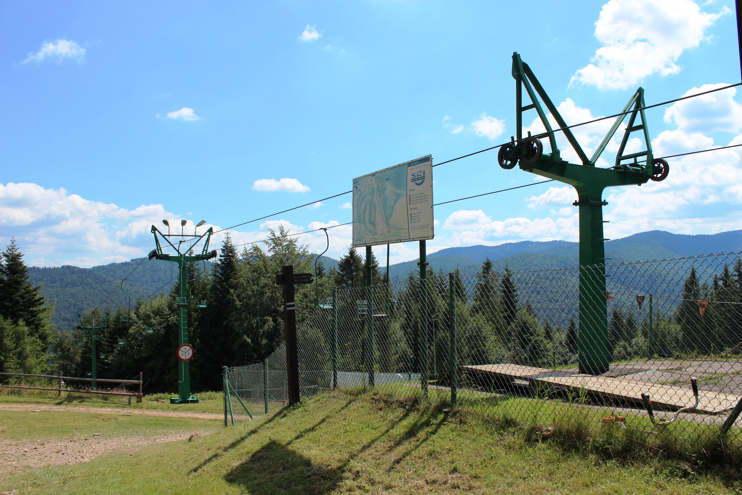 Tobołów Chairlift